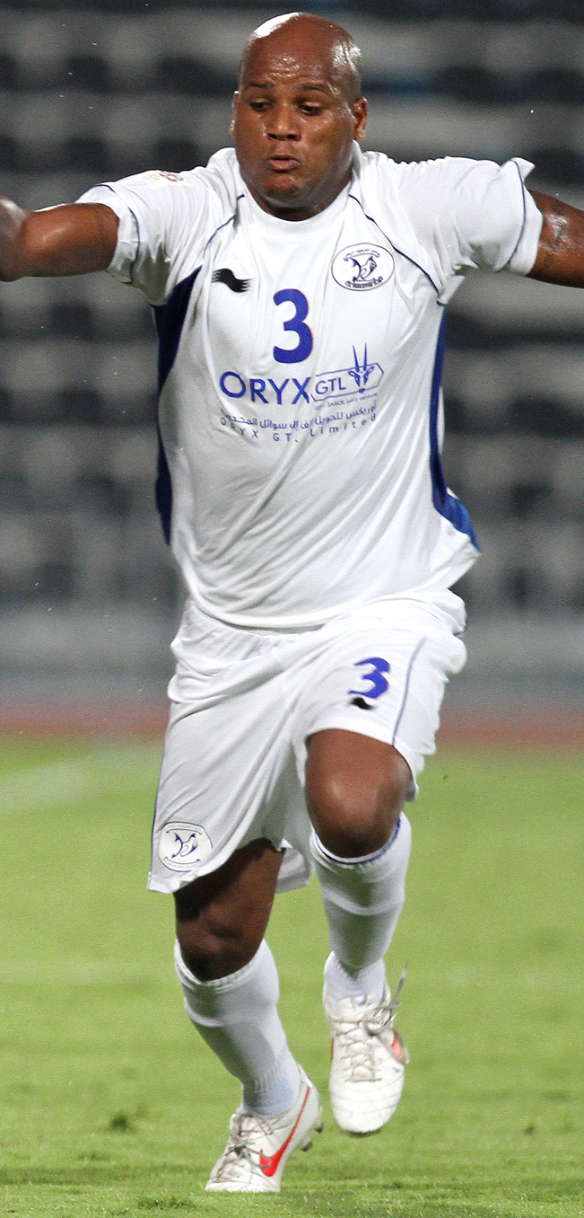 Al Wakrah's Ali Mejbel, left, vies for the ball with Al Kharaitiyat's Brazilian professional Domingos Nascimento in the Qatar Stars League. Picture by Vinod Divakaran